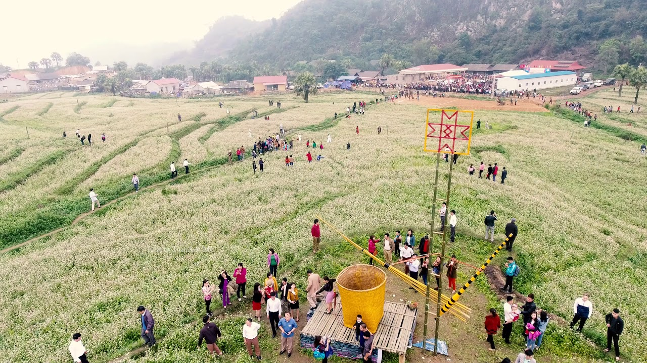 Khu du lịch Bản Tèn